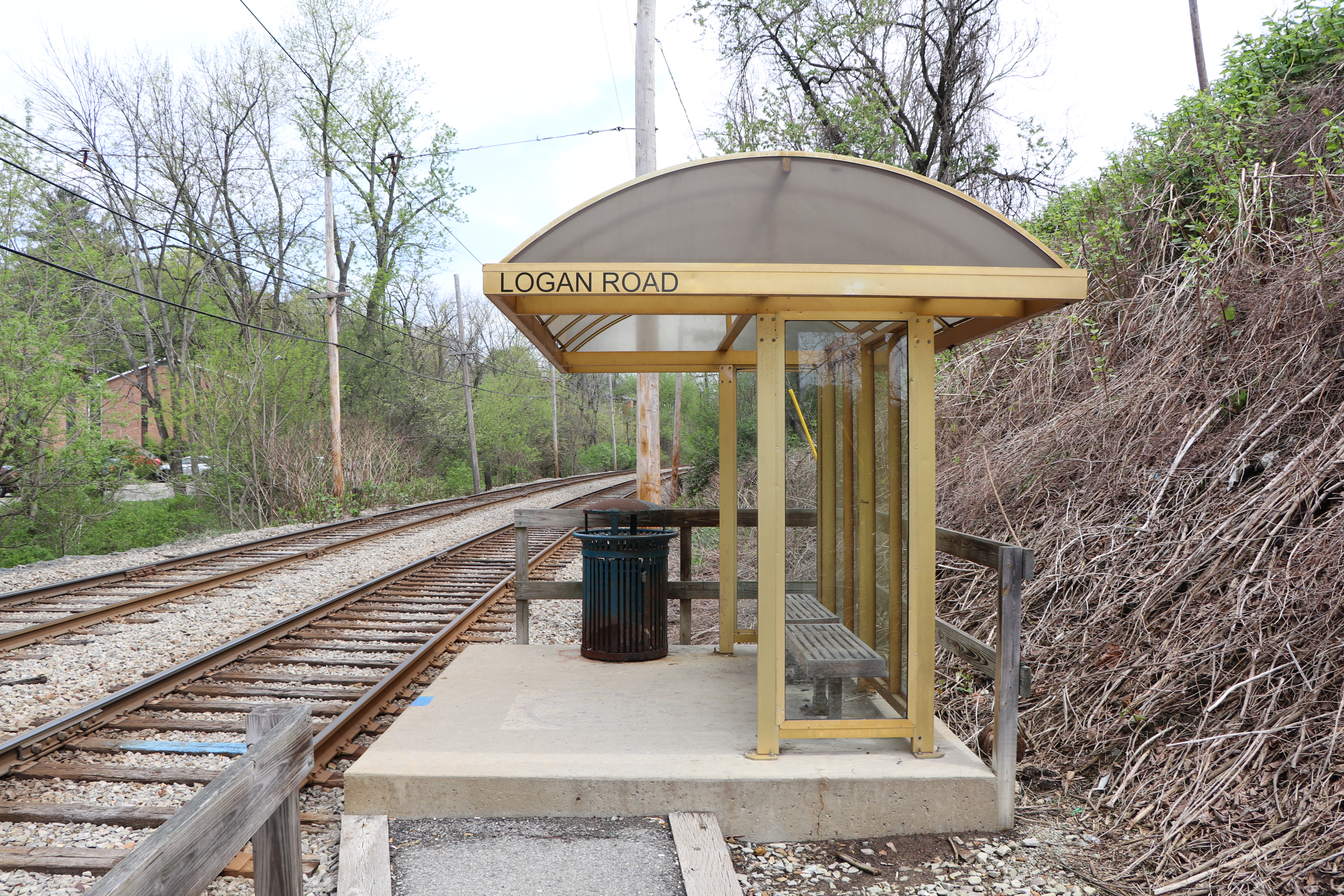 Logan Road station on the Blue Line, Bethel Park, PA. View looking north, with the inbound platform on the right.